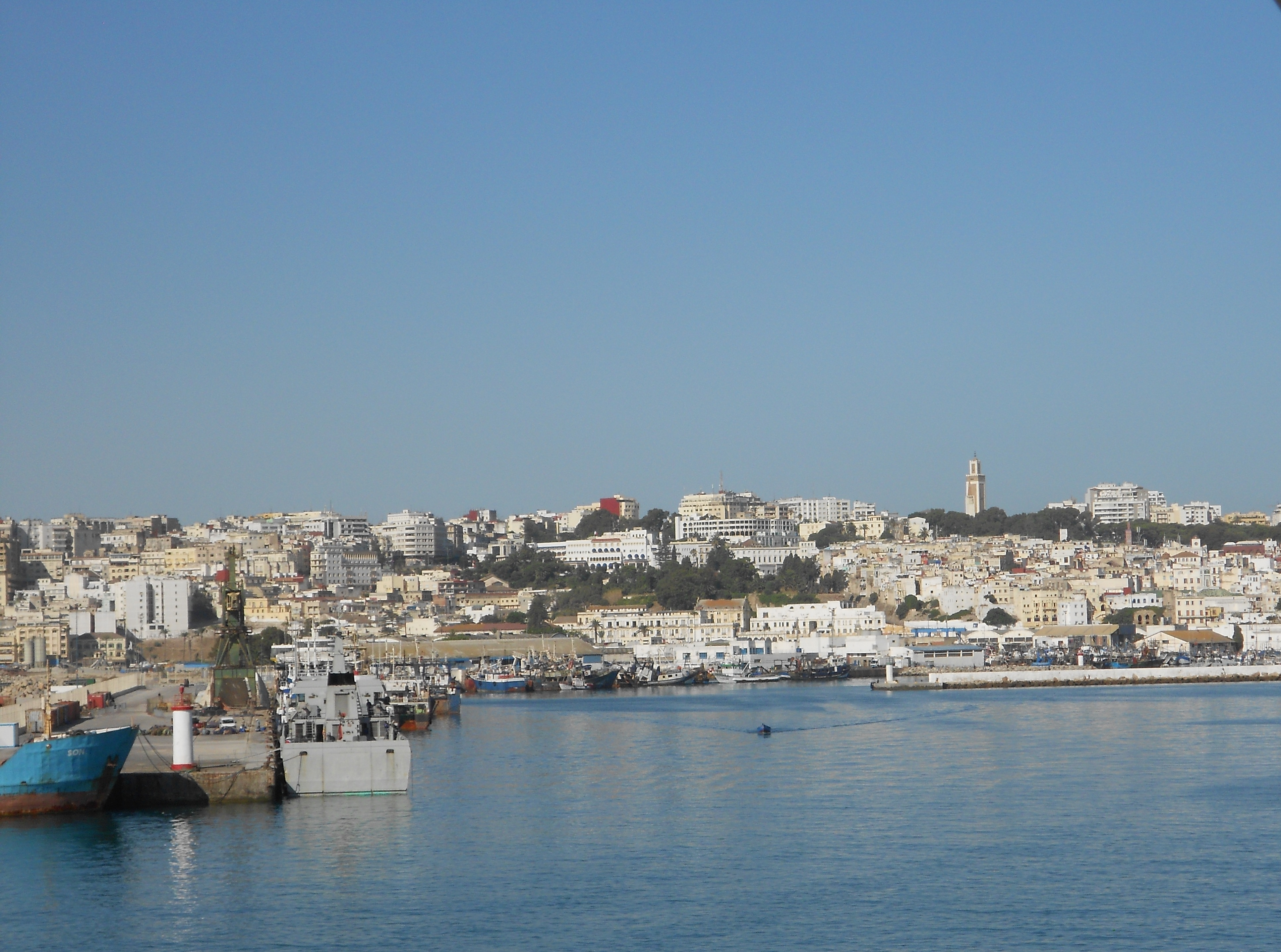 Tangier seen from the port